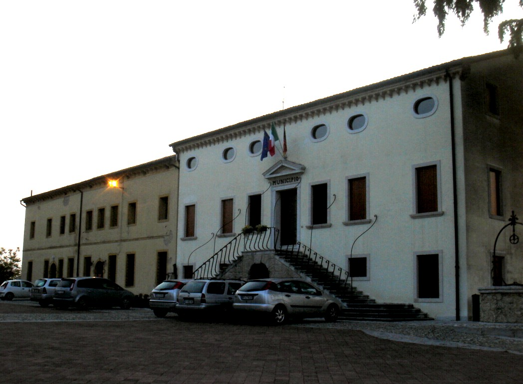 Rua di Feletto: municipio